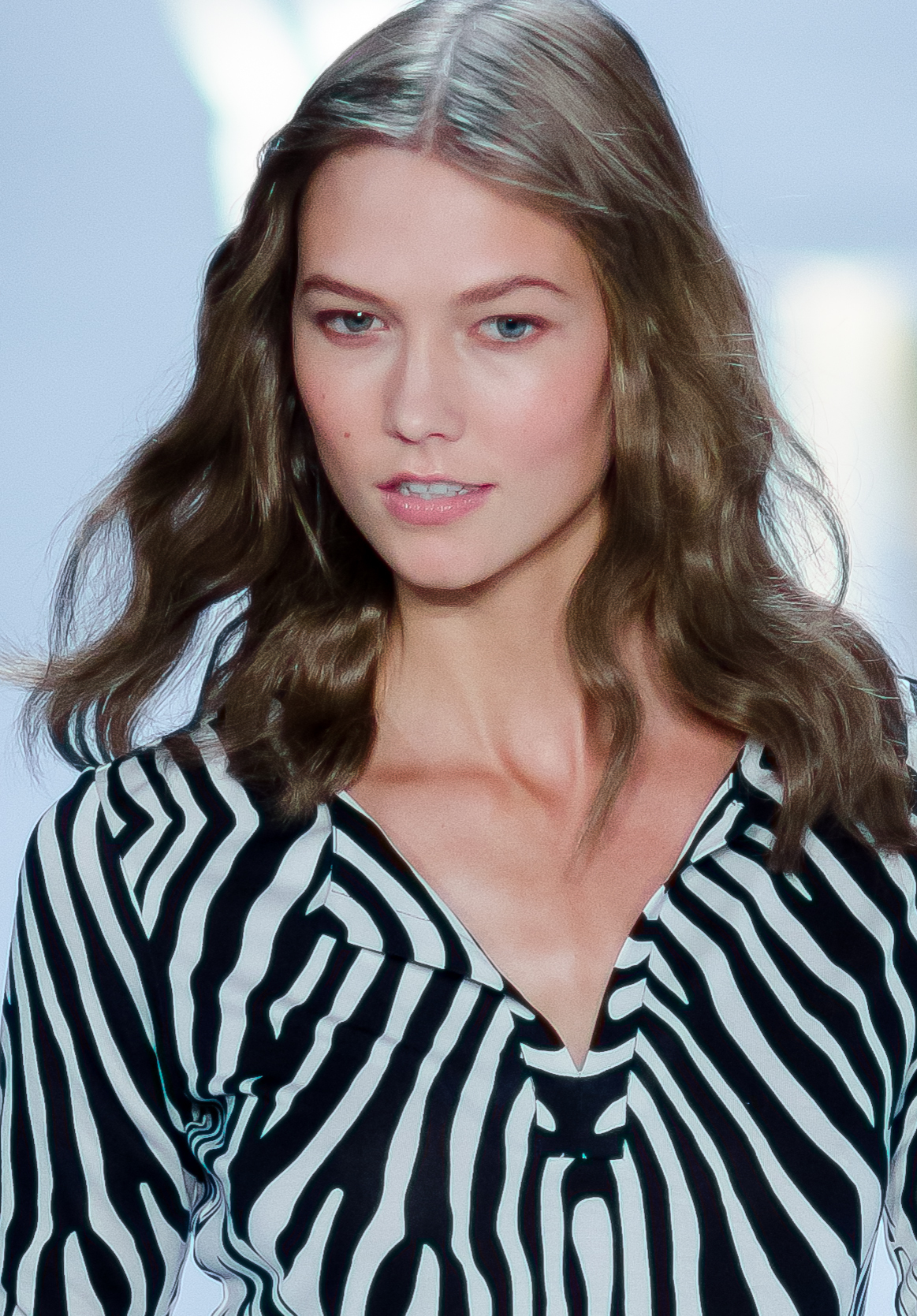 Karlie Kloss walks the runway at the Diane von Fürstenberg Spring/Summer 2014 show at New York Fashion Week, September 2013.